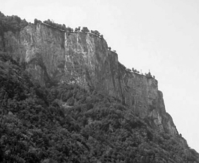 My photo of rocks near Teteven фром 1970